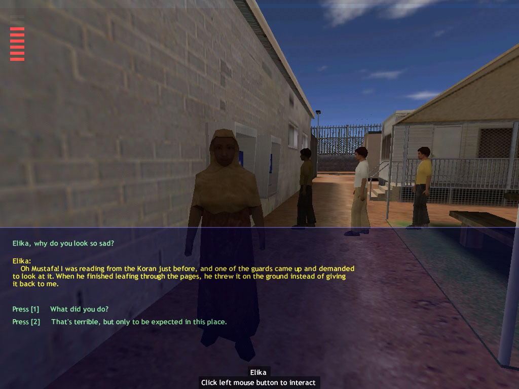 Screenshot from the unfinished point-and-click adventure video game Escape from Woomera